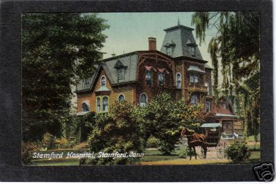 Postcard: Stamford Hospital in Stamford, Connecticut, postmarked 1911 Description: "Stamford,CT-Stamford Hospital, Horse & Buggy 1911" (name of item); "Postally used, standard size postcard"